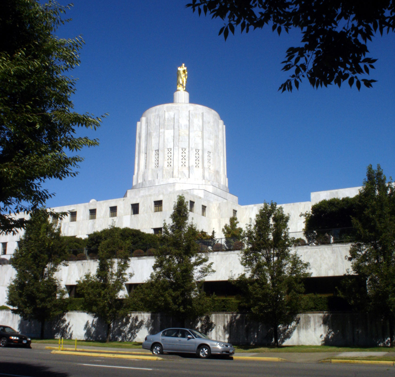 Oregon State Capitol, Salem, OR. Photograph taken 7 September 2006.